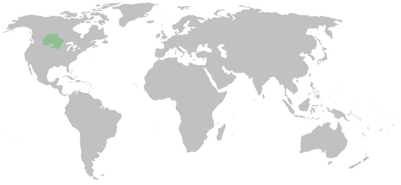 Spermophilus Richardsonii range